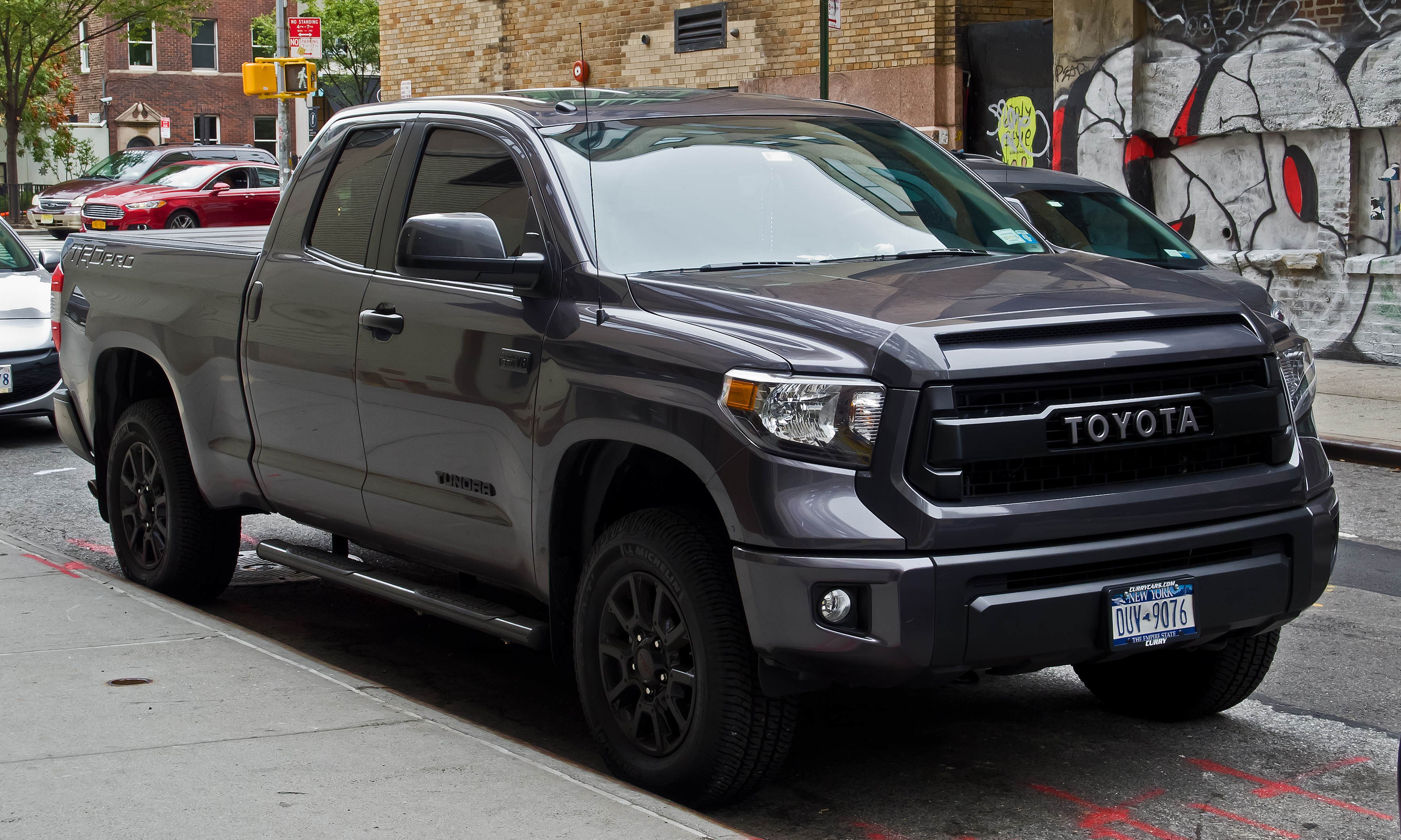 Toyota Tundra TRD Pro 5.7 V8 (II, Facelift)